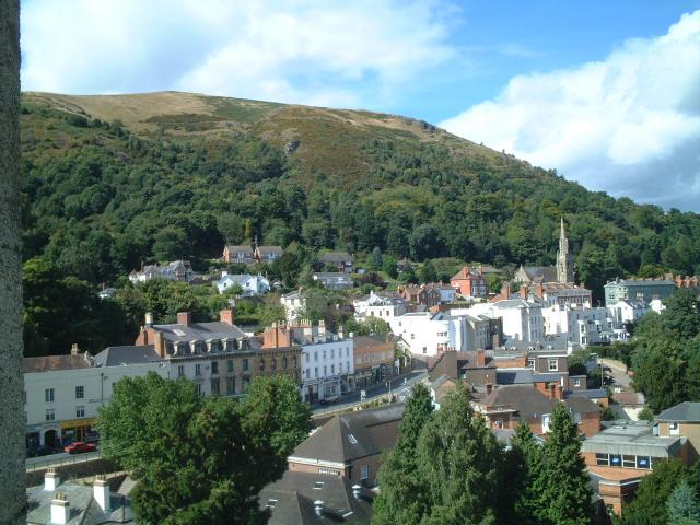 Belle Vue Terrace, Malvern from the top of Priory Church. With North Hill in the background (the most northerly major hill of the Malvern range).